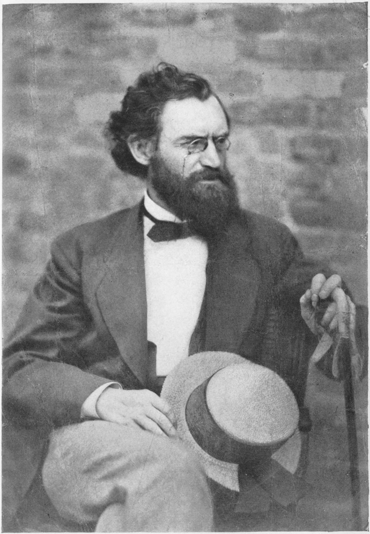 Carl Schurz seated facing a bit to the right holding a straw hat and a cane